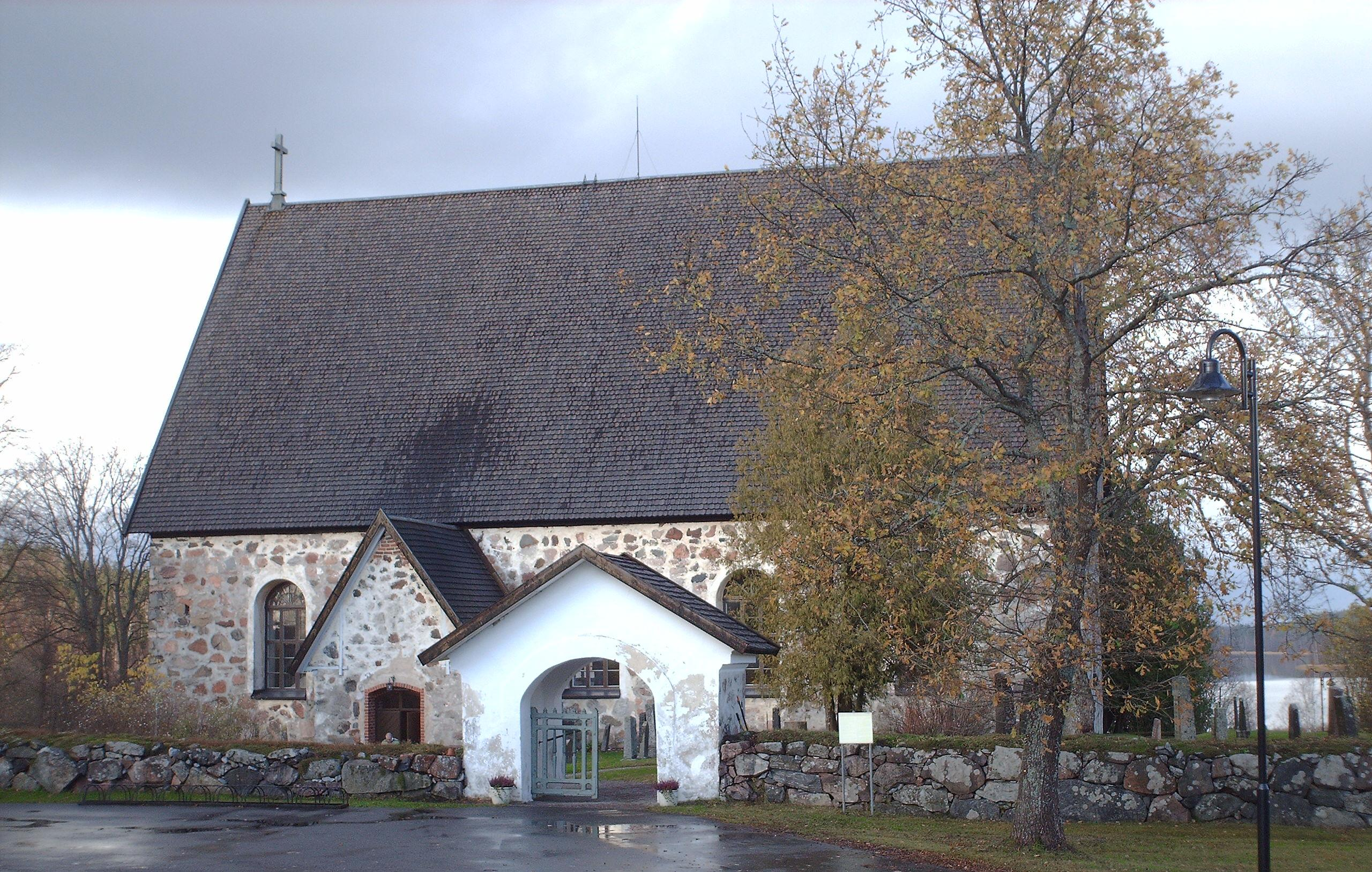 Karis Church, Finland, Church of St Catherine